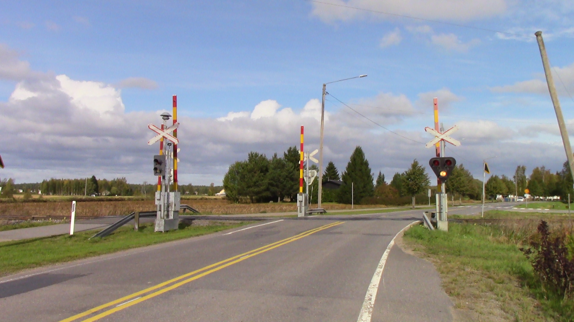 Finnish regional road 687 at Aurala level crossing in Teuva. The road runs from Ohrikylä to Laihia.